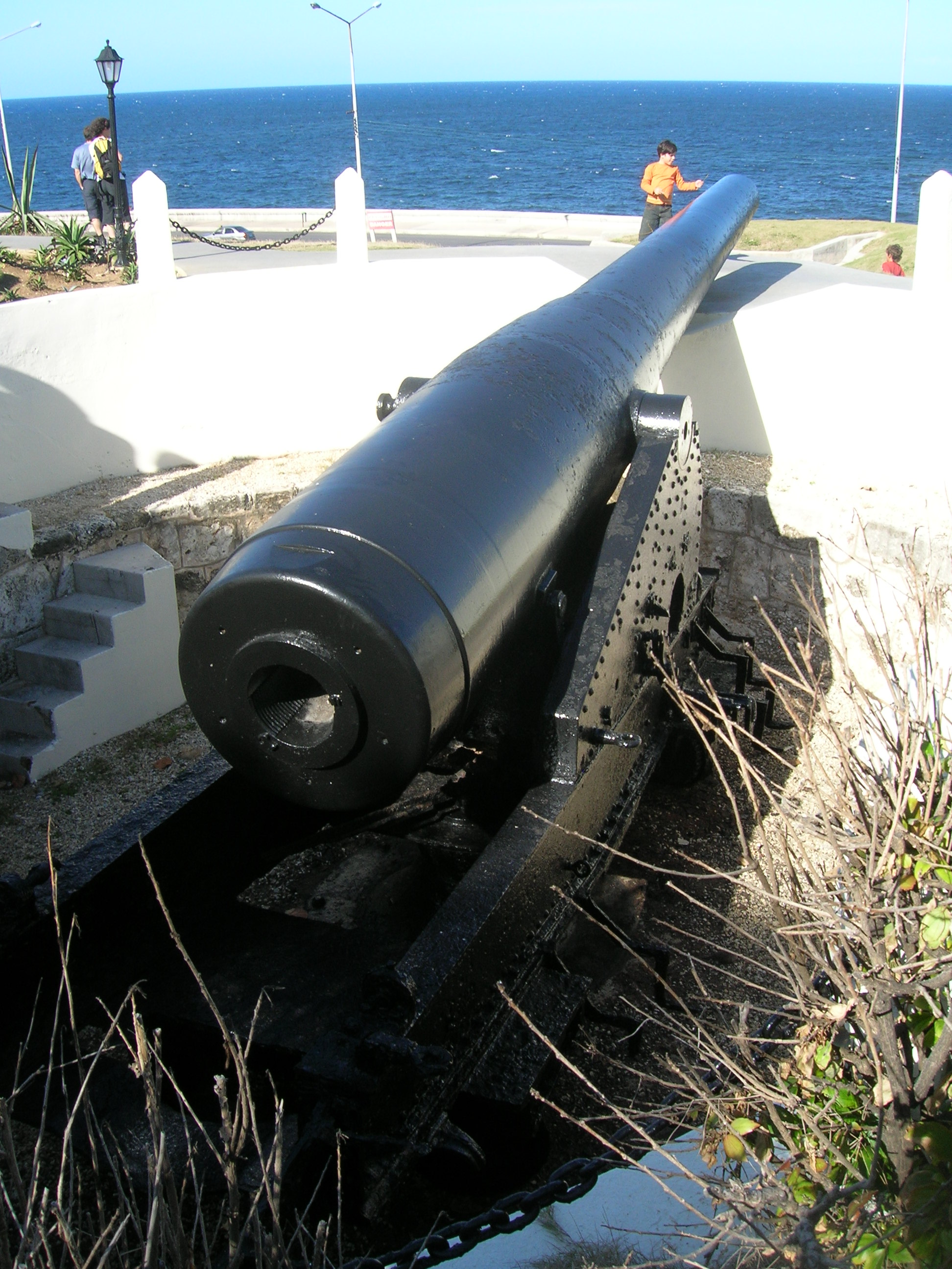 Photo of the 12-inch (305mm) Ordóñez breech loading rifled coastal artillery piece located at the Santa Clara Battery on the grounds of the Hotel Nacional de Cuba.